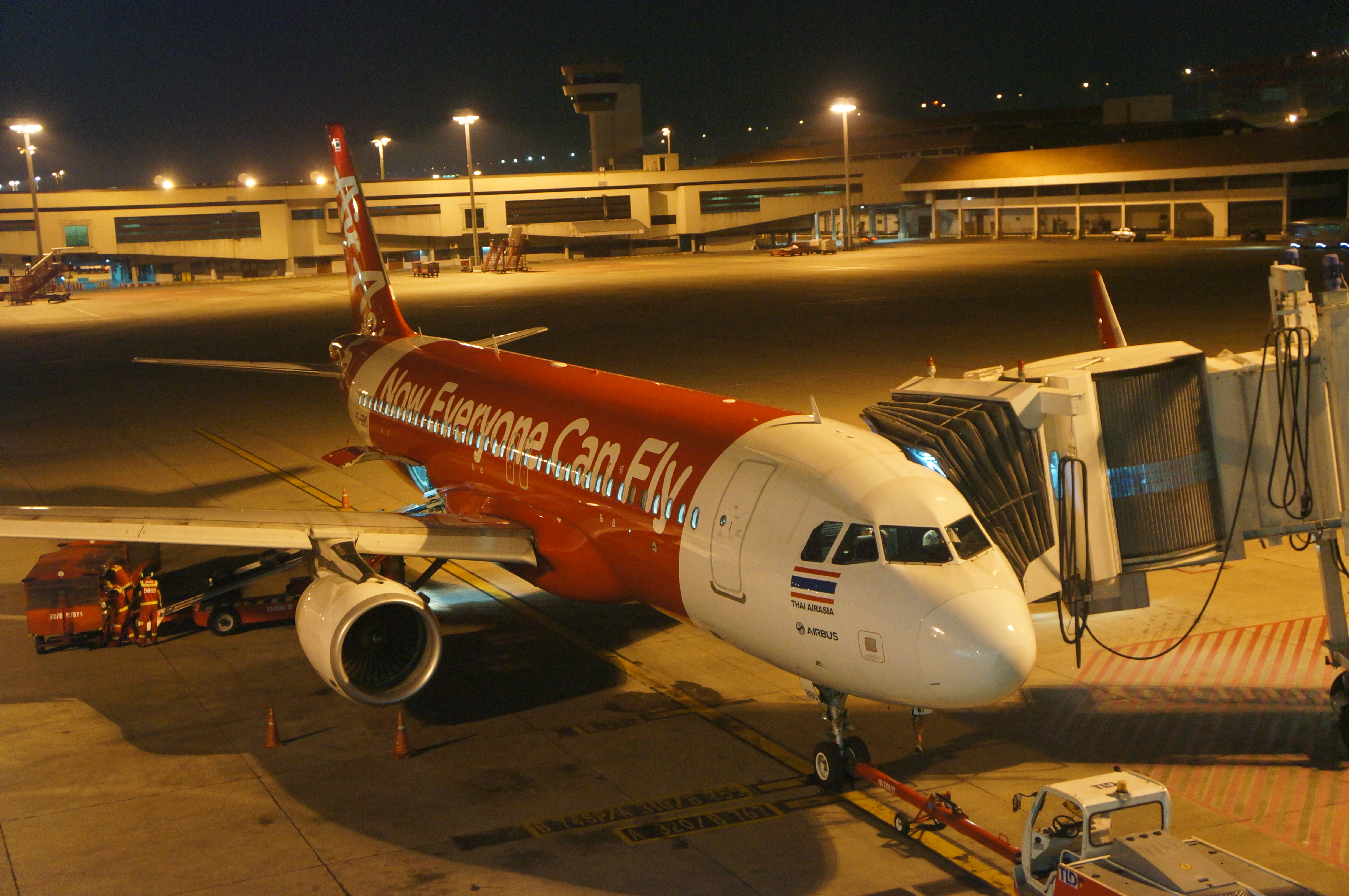 201701 HS-BBO at DMK